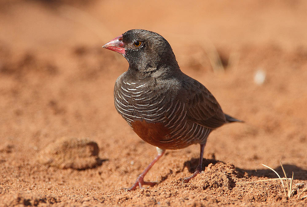 Image taken at Pirang, The Gambia. This is an adult breeding plumage male. I will probably never see one of these tiny wee grassland finches this close again!